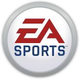 Logo of EA Sports